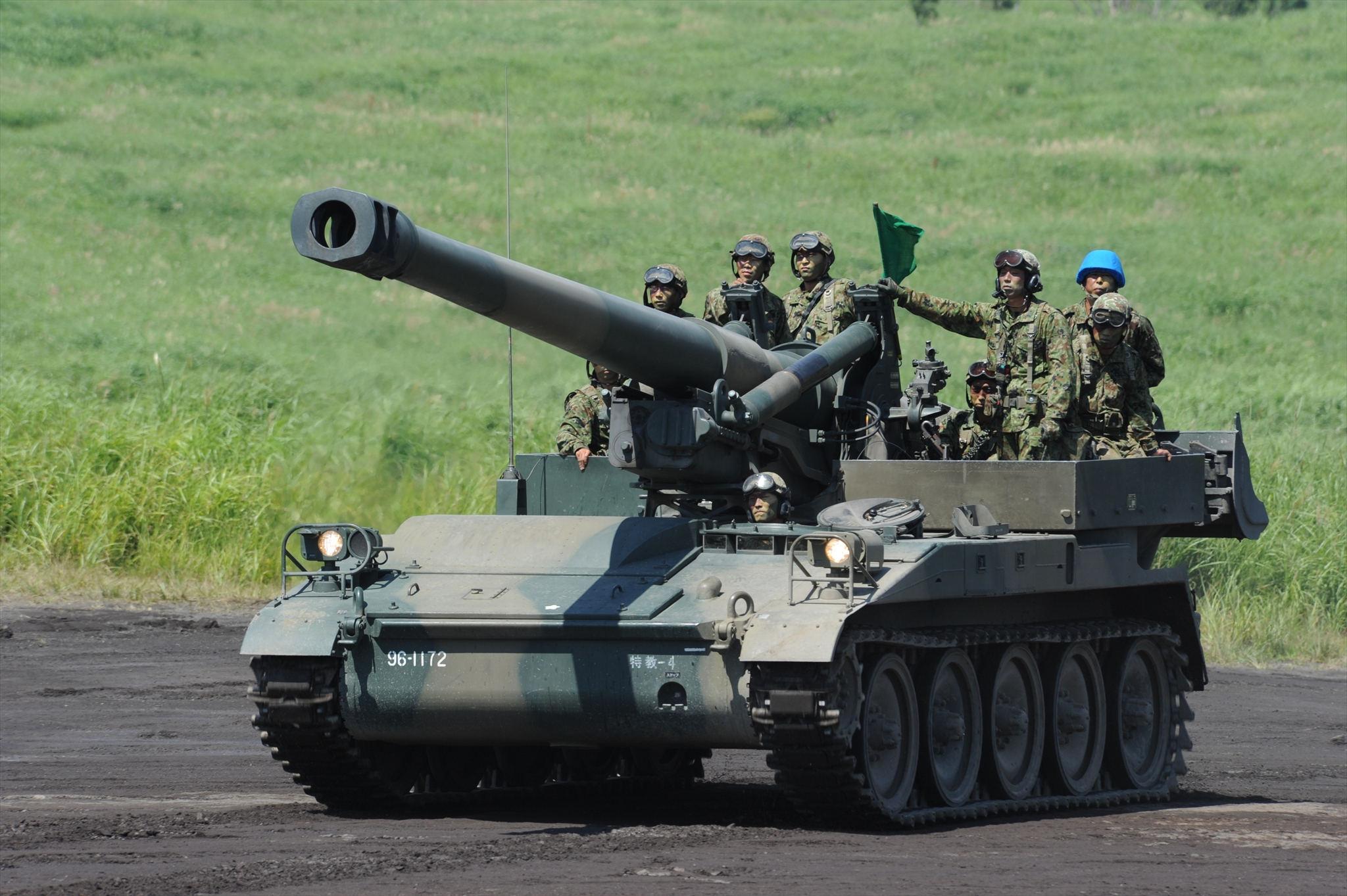 Title ２０３ｍｍ自走榴弾砲 Ｈ２２富士総合火力演習・前段_026_R.JPG Album 装備 ２０３ｍｍ自走榴弾砲（富士総合火力演習）